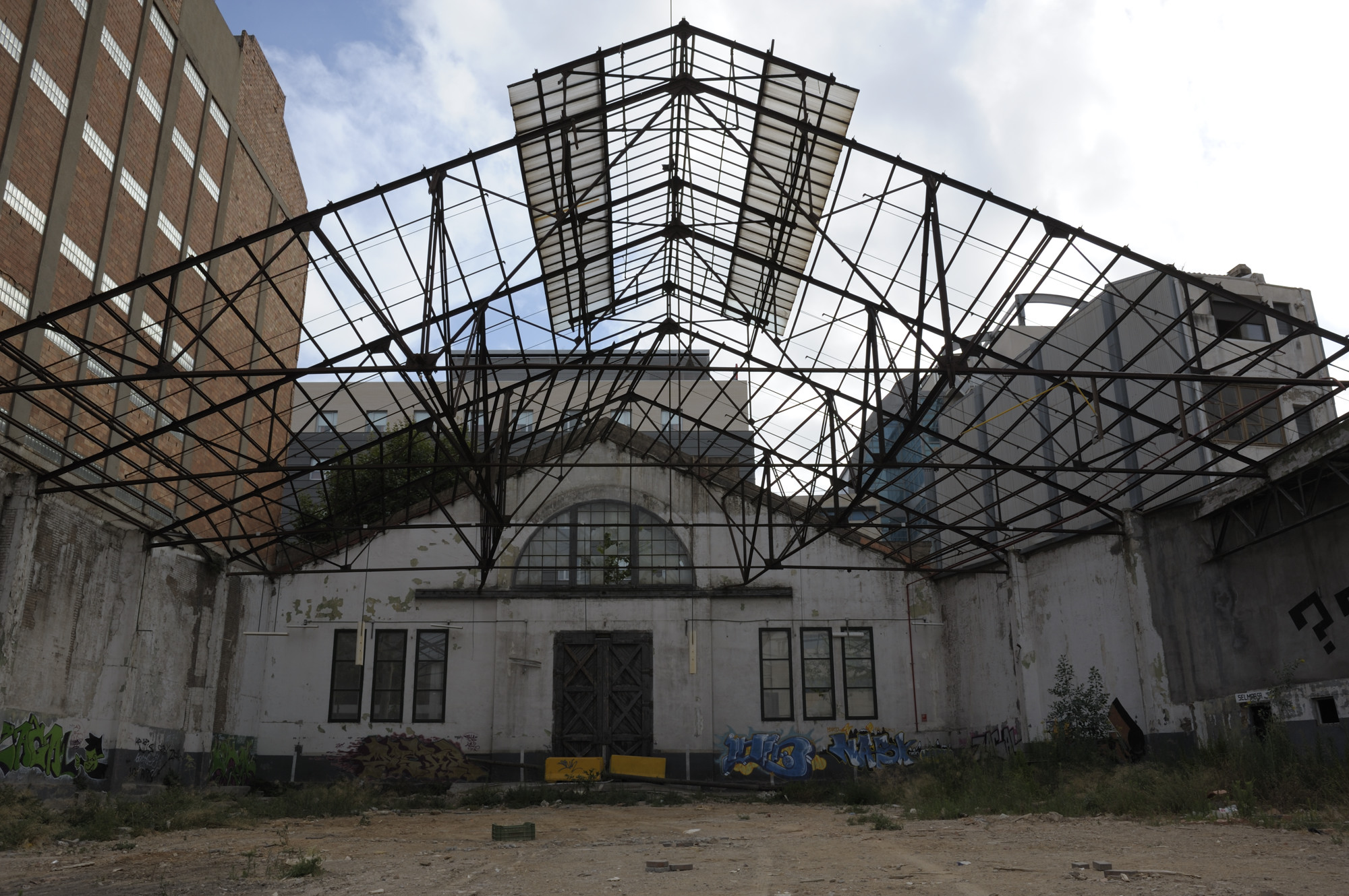 Old industrial building in Poblenou, Barcelona.